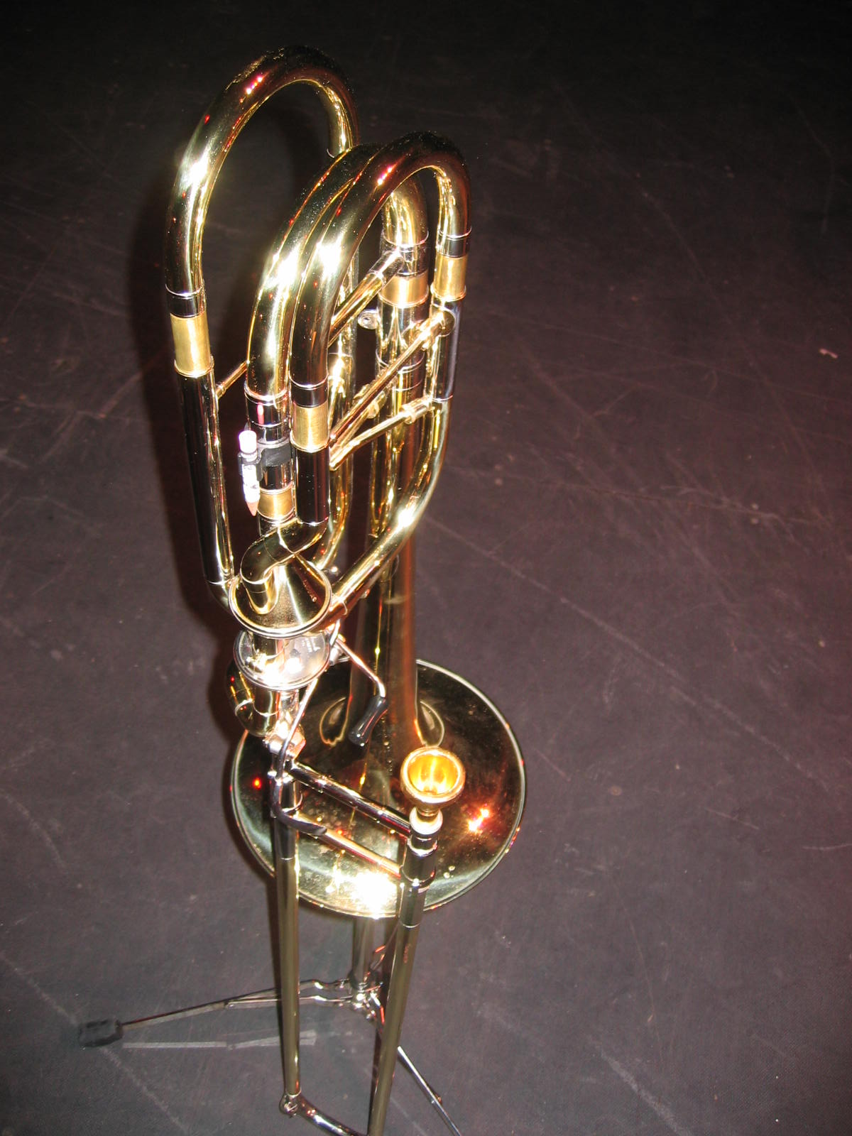 Trombone